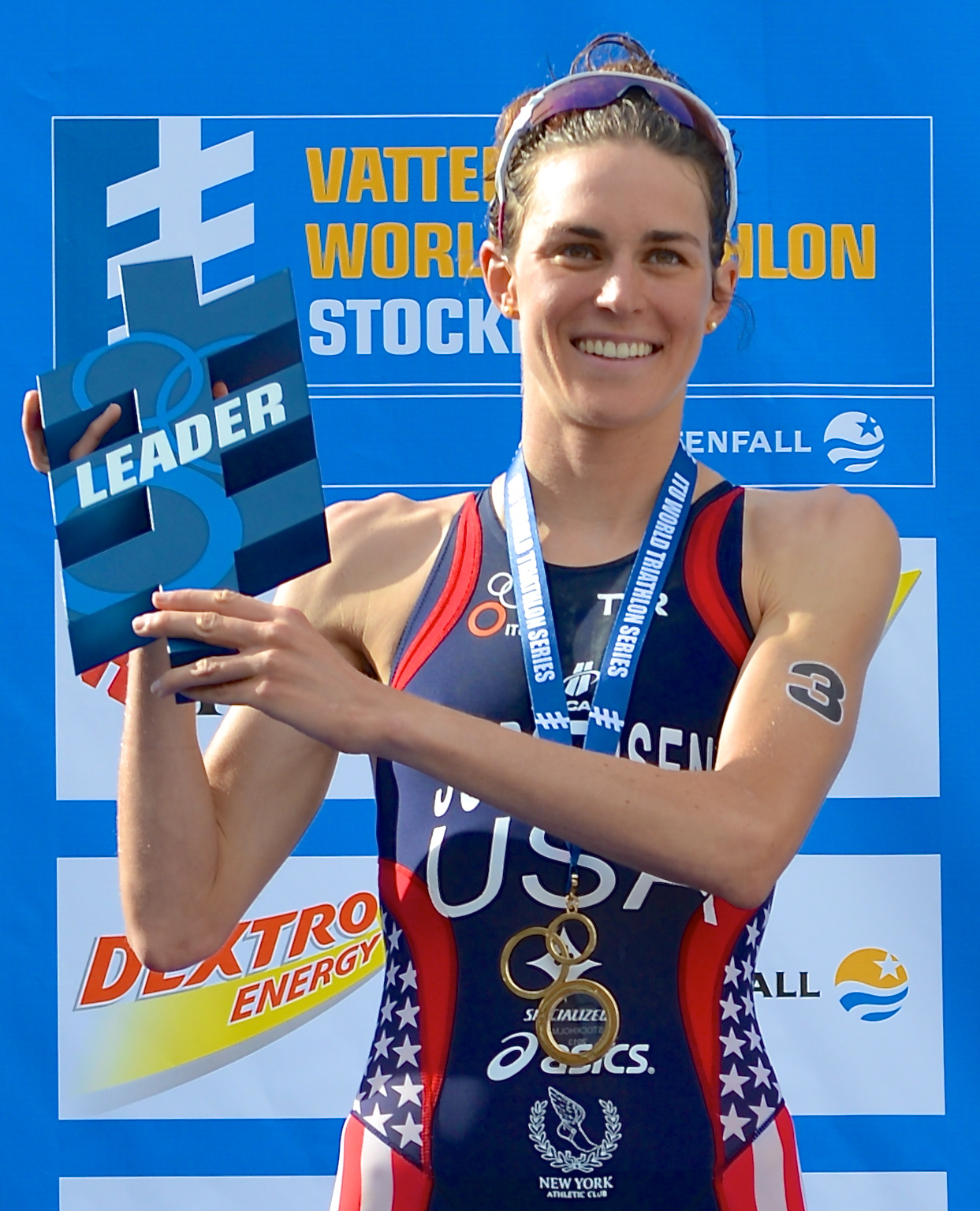 Gwen Jorgensen winner in 2013 ITU World Triathlon Stockholm and new leader of the World Cup.